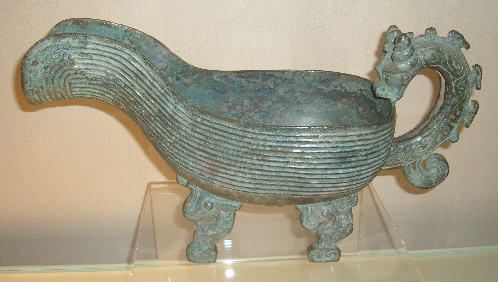 Yi of Marquis Qi.A Yi is an ancient ritual bronze vessel from China. It is believed that it was used to hold water for washing the hands before rituals like sacrifices. This Yi has the shape of half a gourd with a handle in the shape of a dragon, and an oval base. It is supported by four legs decorated with taotie (animal mask designs). The bottom shows 22 chinese characters written in 4 lines, stating that "the Marquis of Qi cast this Yi for his wife Mengji Liangnii, the princess of the State of Guo". It is from the late Western Zhou Dynasty (-1046 to -771), and is part of the collections of the Shanghai Museum. Height: 24.7cm Length: 48.1cm Weight: 6.42 kg